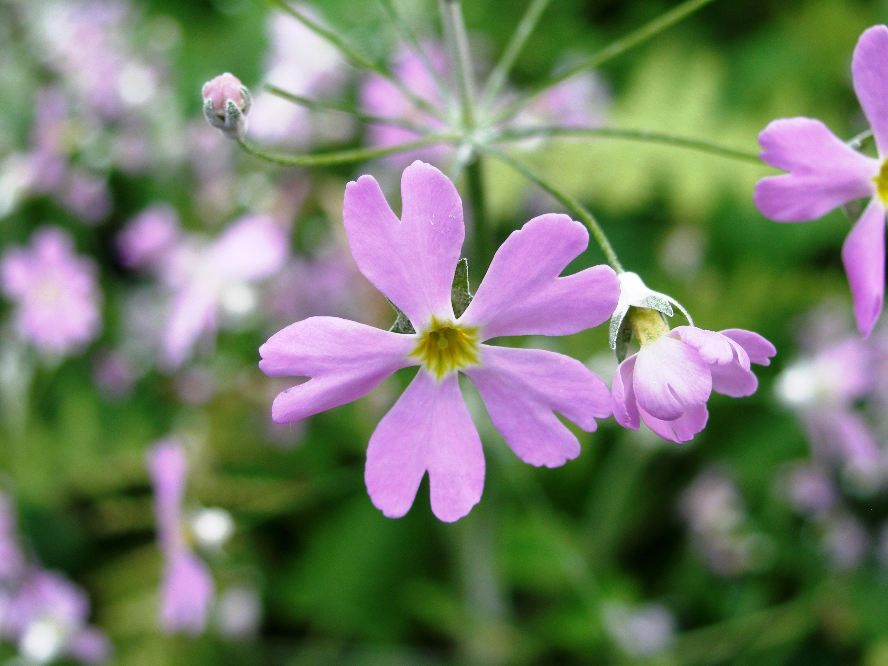 Specimen in cultivation at the Royal Botanic Gardens, Kew, United Kingdom.